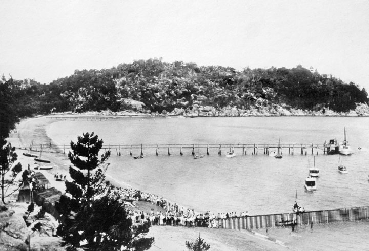 Picnic Bay, Magnetic Island, North Queensland.